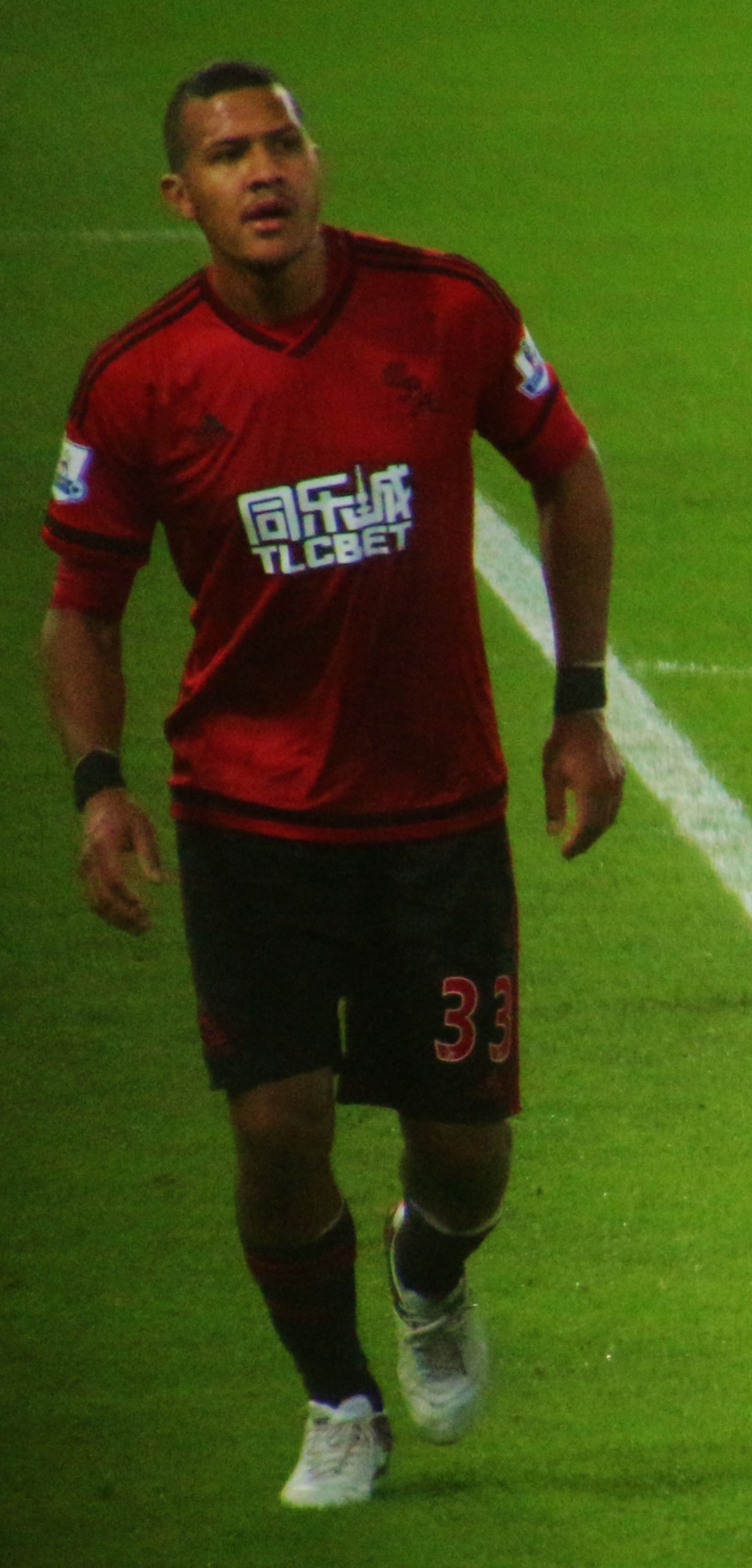 José Salomón Rondón